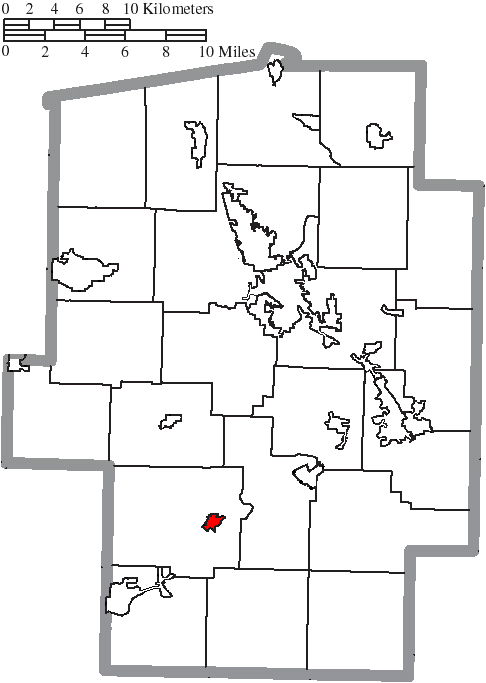 Map of the municipal and township boundaries of Tuscarawas County, Ohio, United States, as of the 2000 census, with the location of the village of Port Washington highlighted. Township borders are shown only in unincorporated areas in order to differentiate incorporated and unincorporated areas more clearly.